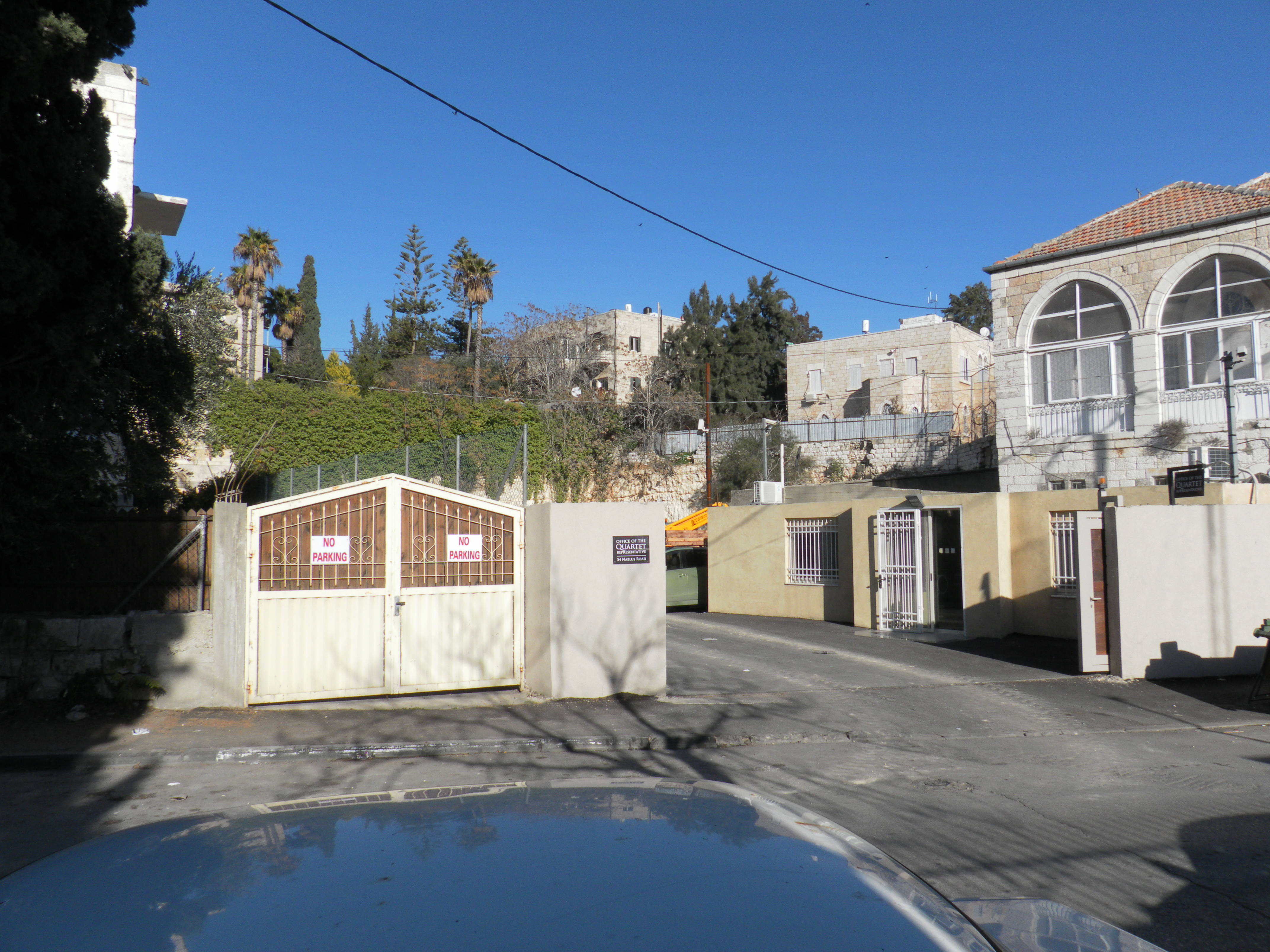 Offices of the Mid-East Quartet in Jerusalem.